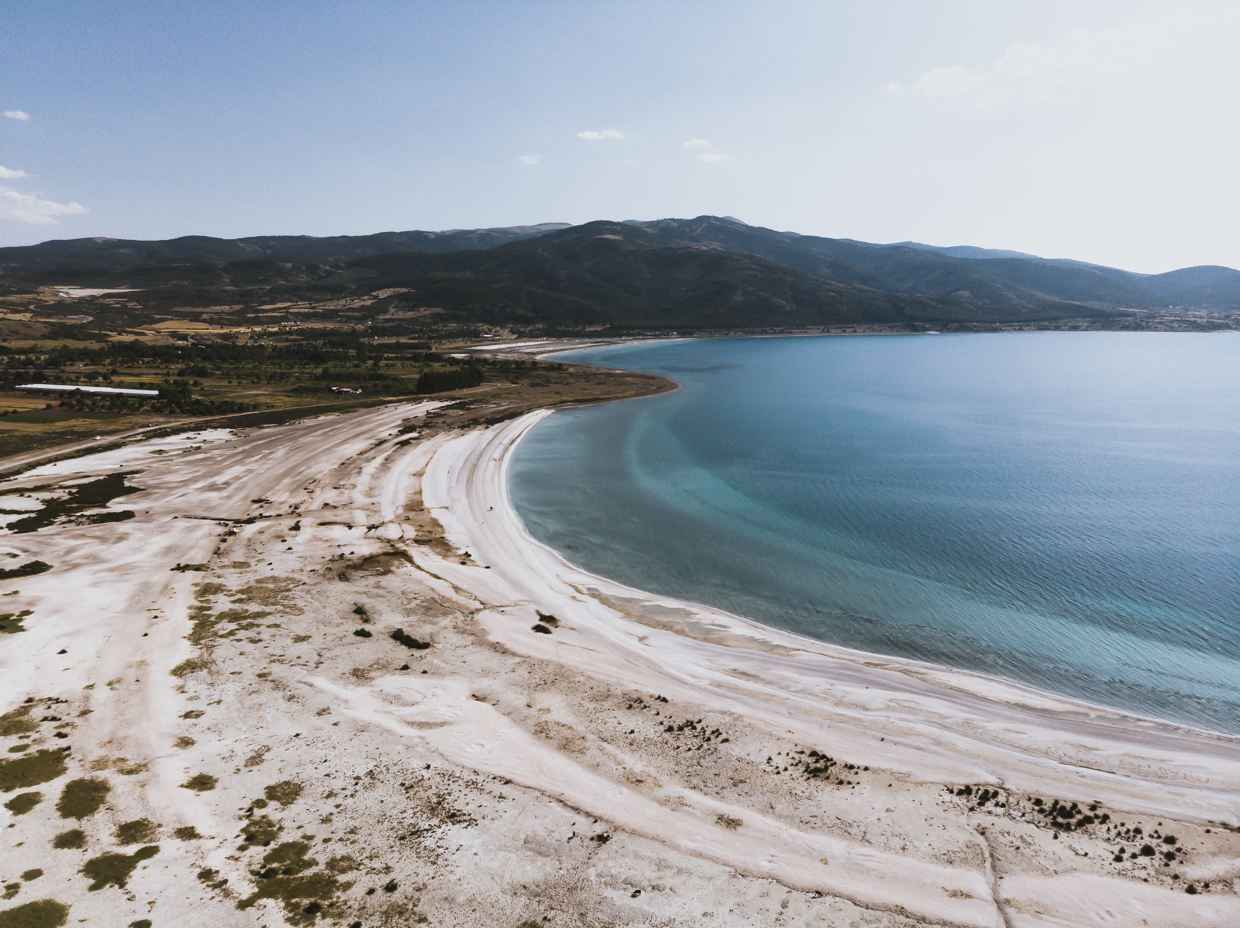 Lake Salda is one of Turkey's deepest, clearest and cleanest tectonic lakes. A place where everyone with a turquoise passion must fall down.